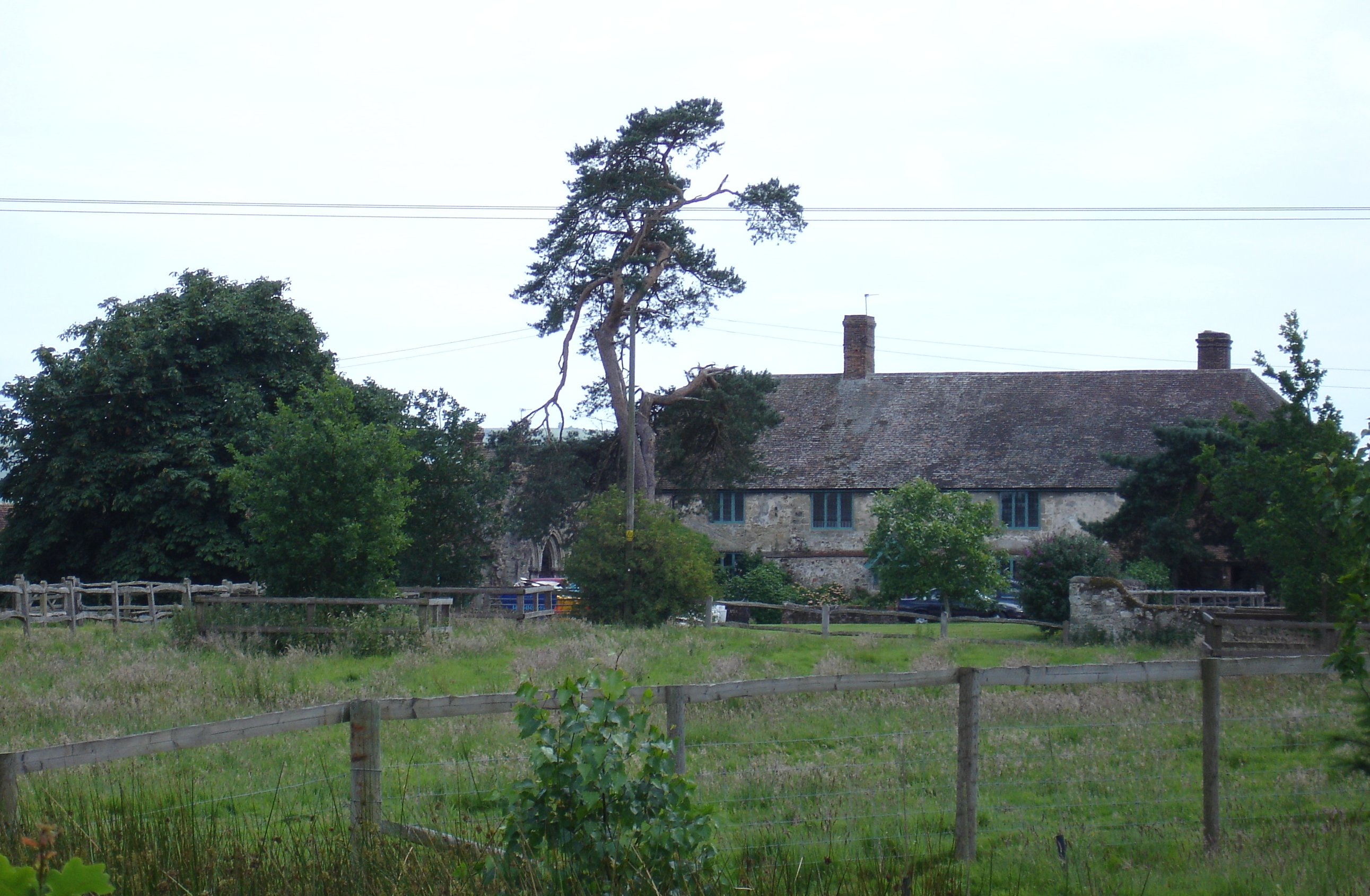 Hardham Priory Farmhouse, Sussex, England